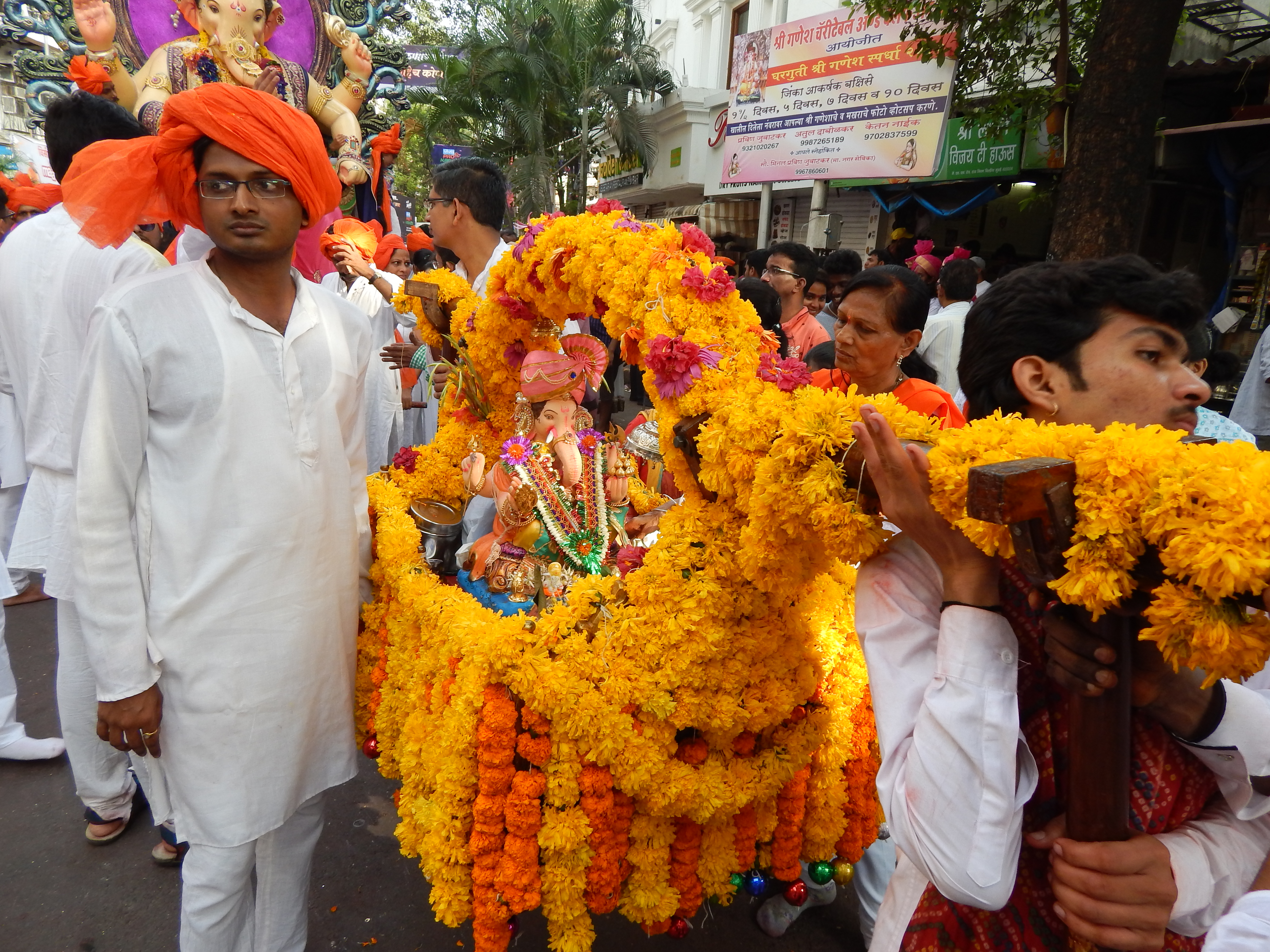 Mumbai celebrates Ganesh Chaturthi like no other state or city in India. And when the Lord arrives no preparation is just enough. This photo has been taken in the country: India